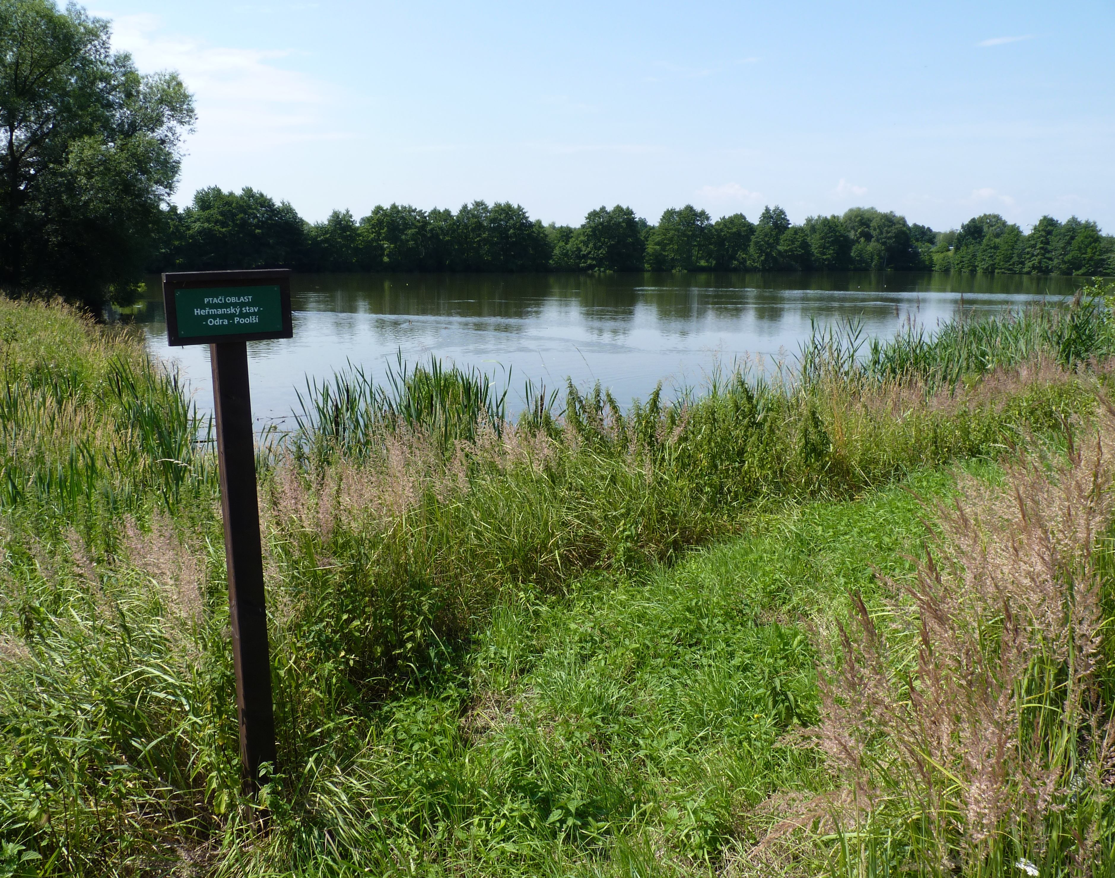 Malý Cihelňák. Rychvald, Karviná District, Moravian-Silesian Region, Czech Republic